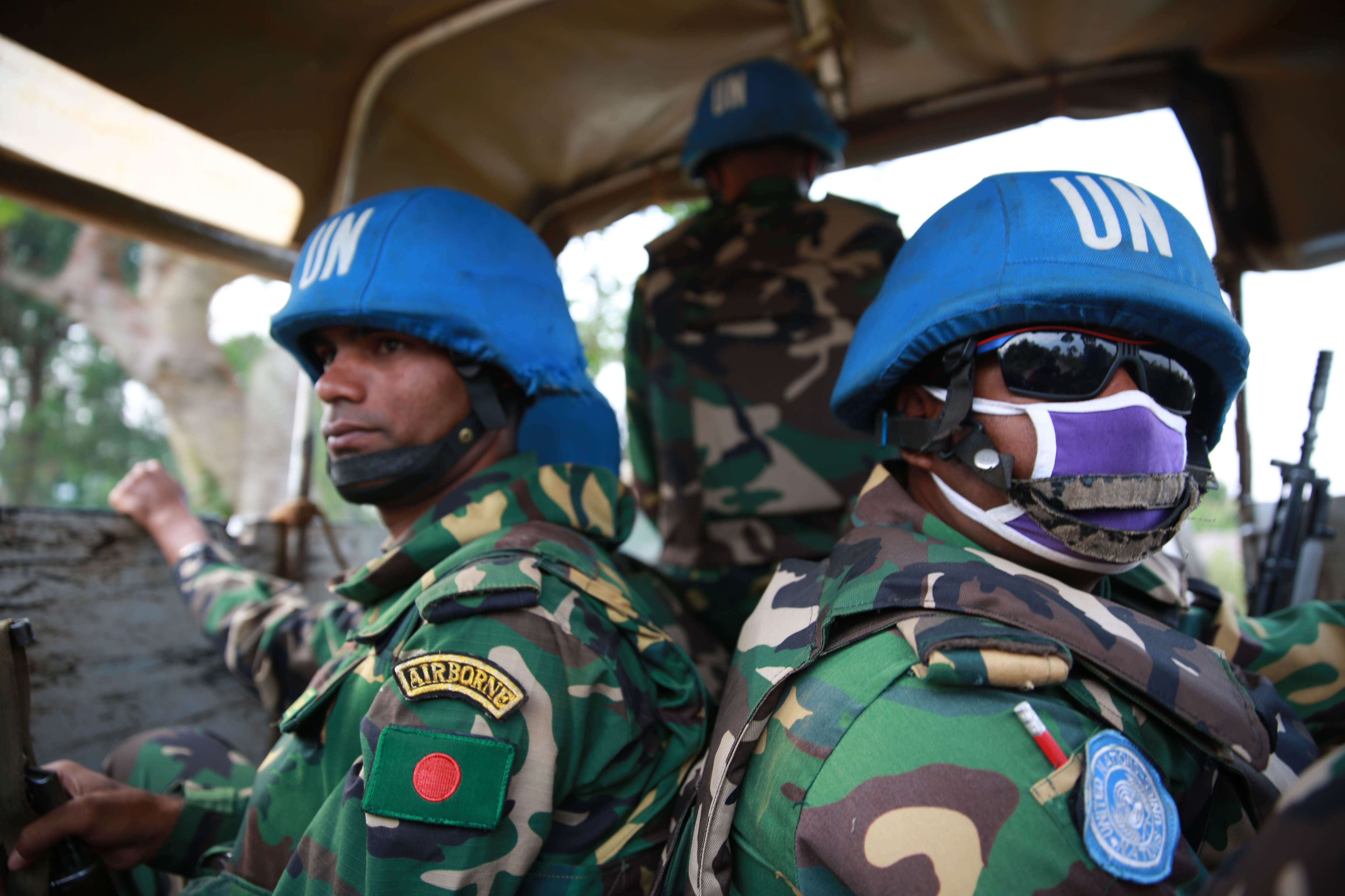 06 janvier 2015, Aveba, District de l’Ituri, Province Orientale : Une patrouille terrestre du bataillon bangladais. Photo MONUSCO/Abel Kavanagh == 6 January 2015, Aveba, Ituri district, Province Orientale: Ground patrol by bangladeshi battalion. Photo MONUSCO/Abel Kavanagh